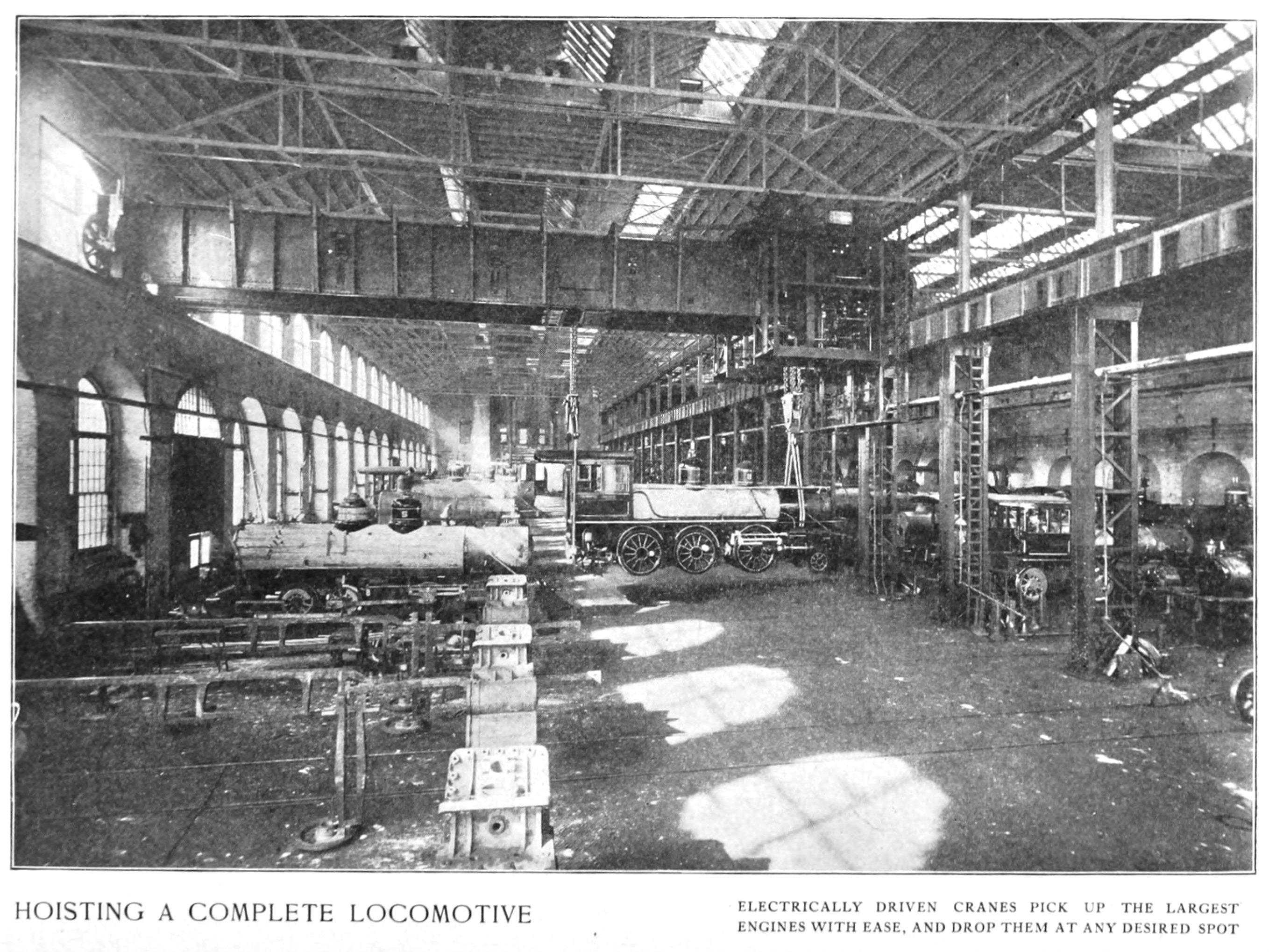 Part of a series of photos of the Baldwin Locomotive Works published in 1904